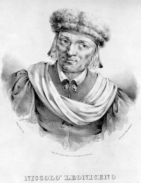 Italian physician and humanist